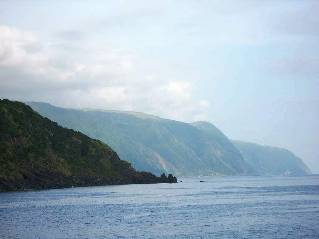 The clifftops and fajãs along the coast (including Fajã dos Vimes and Fajã de São João) taken from the Port of Calheta, civil parish of Calheta, municipality of Calheta (Azores), Portugal